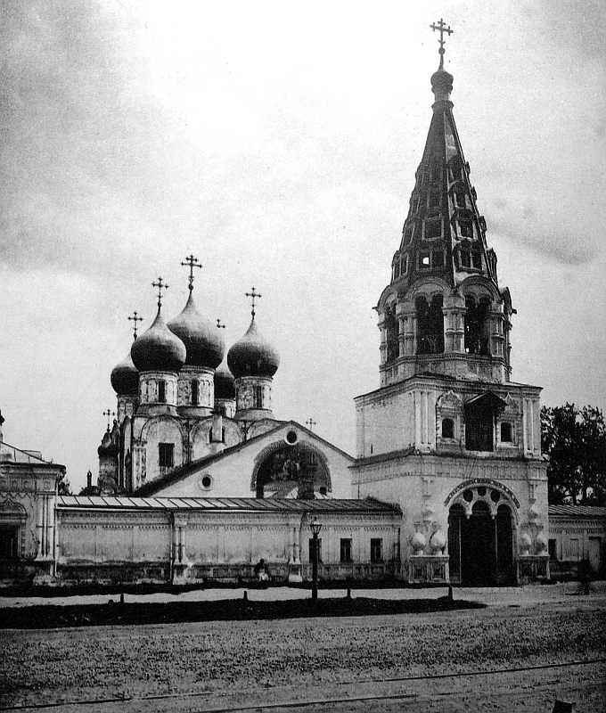 The church of Nativity of Theotokos in Butyrki, Moscow.